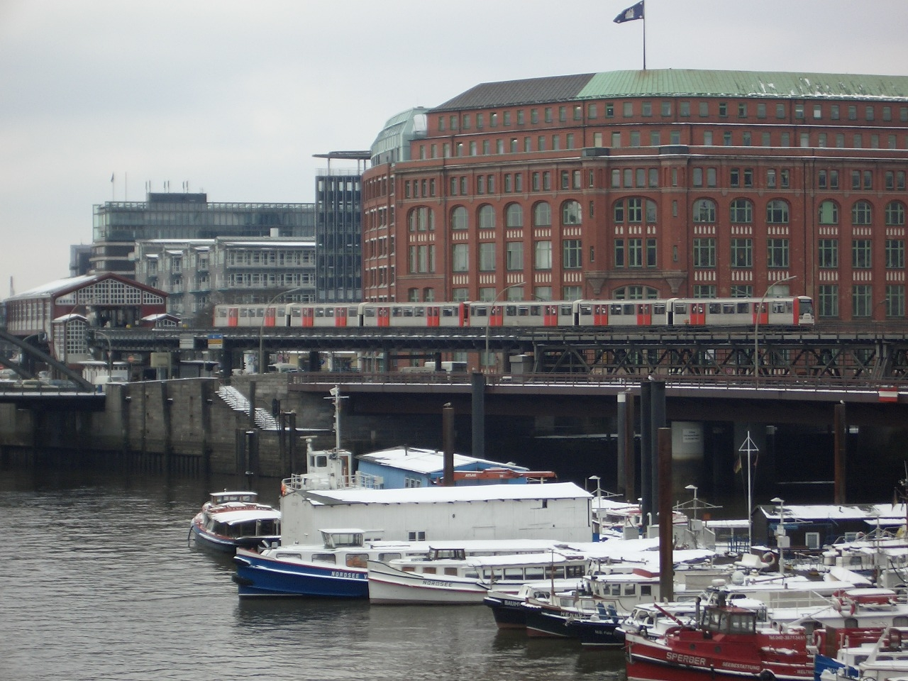 U-Bahn Hamburg, a train of line U3 near the station Baumwall